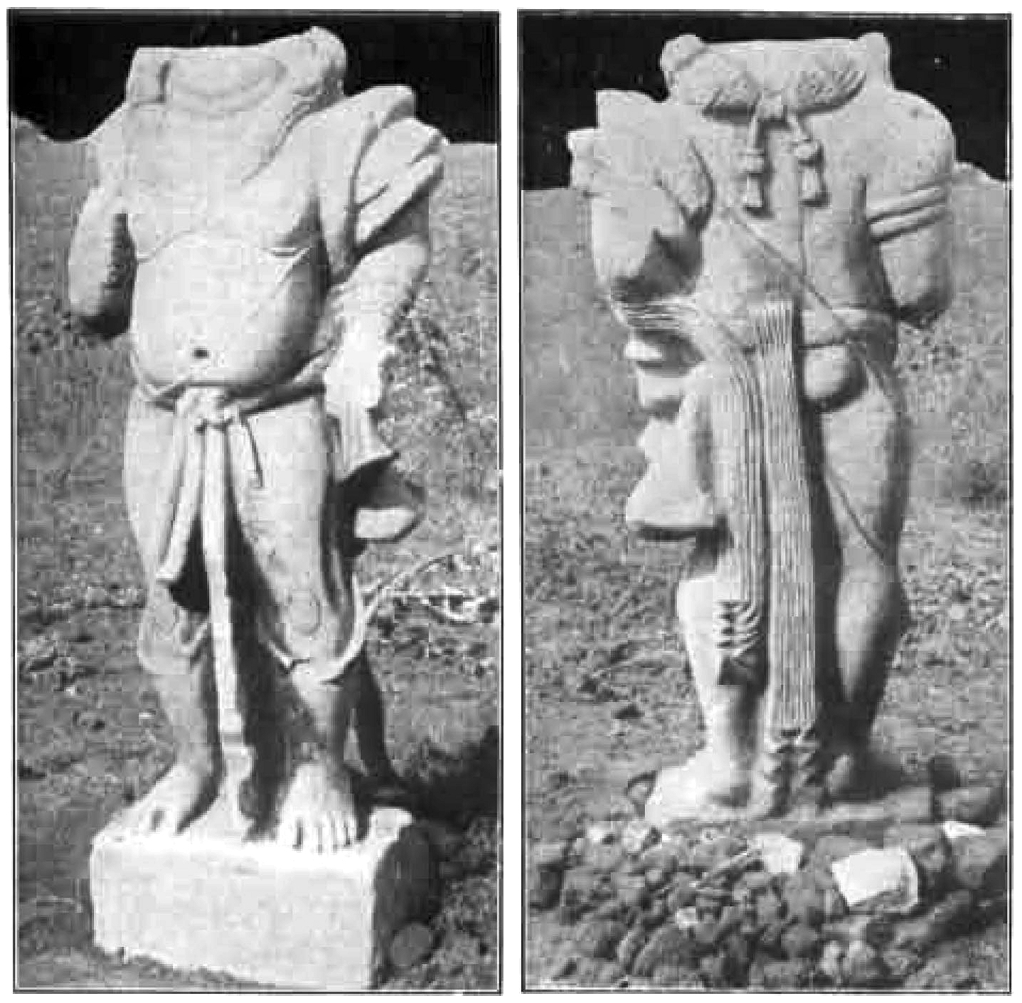 Manibhadra image at Pawaya Modern photograph at Gwalior Archaeological museum